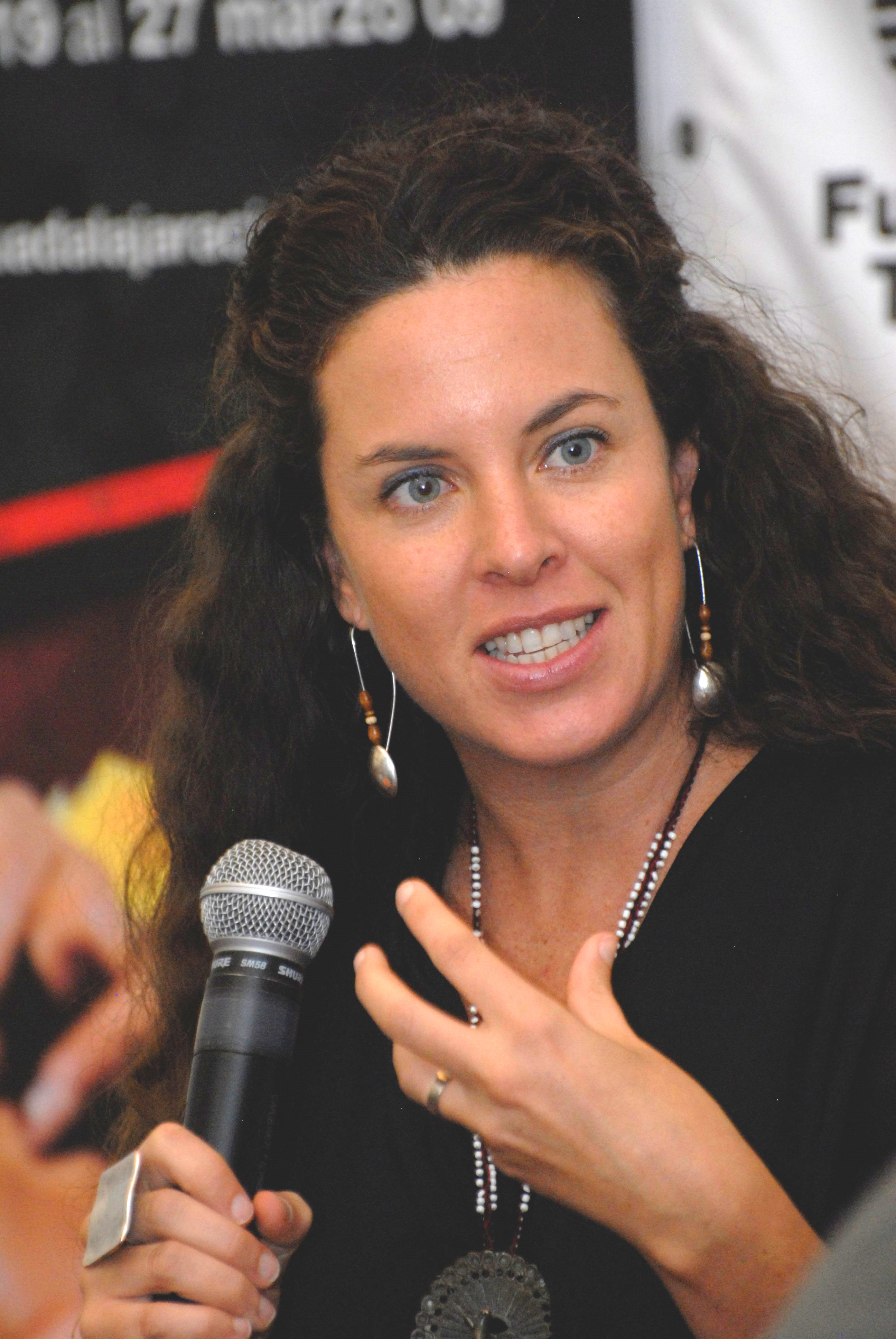 Peruvian film director Claudia Llosa (Festival Internacional de Cine en Guadalajara, Mexico, 2009-03-23)